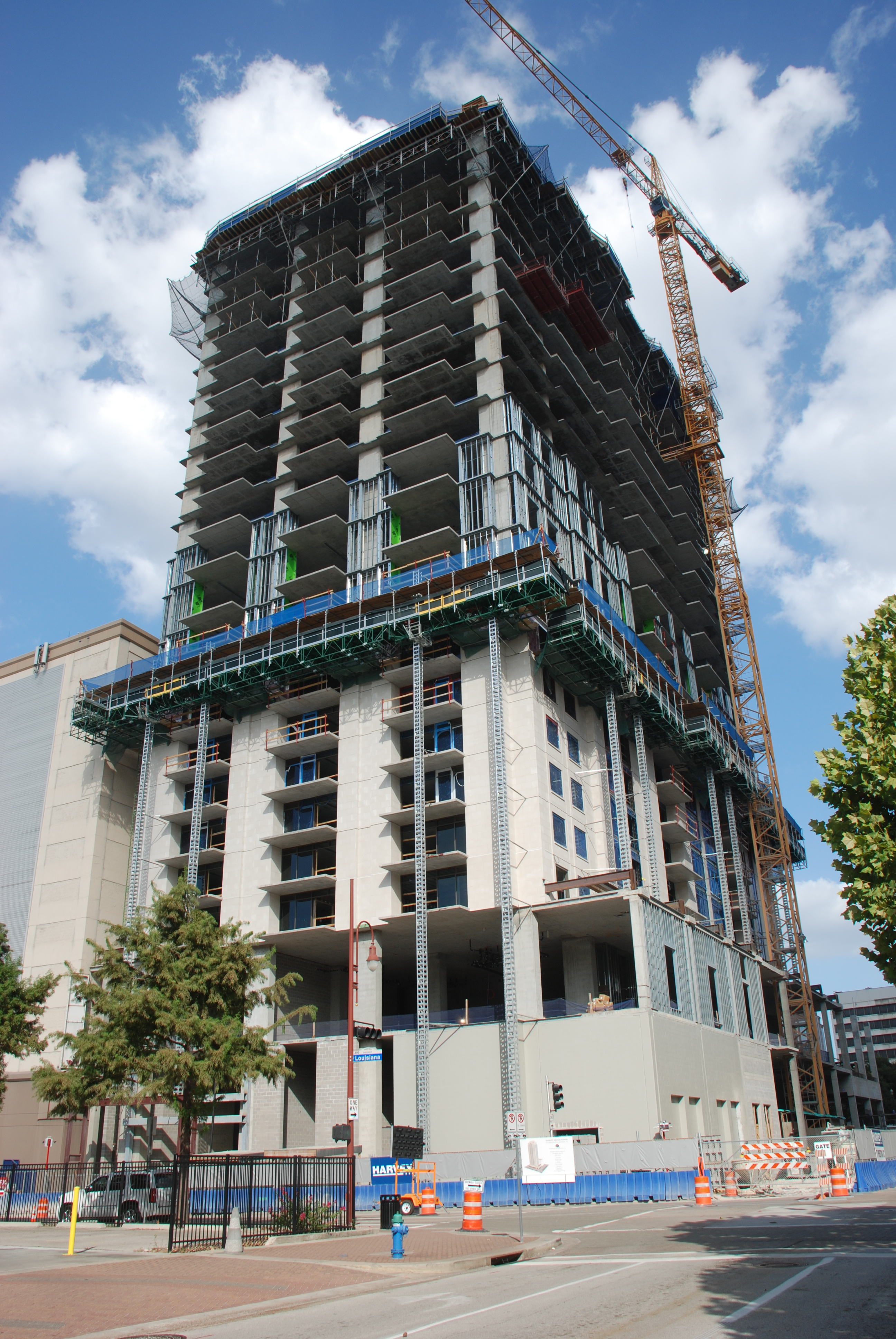 Building at 777 Preston Street (under construction), Market Square Tower, Downtown Houston